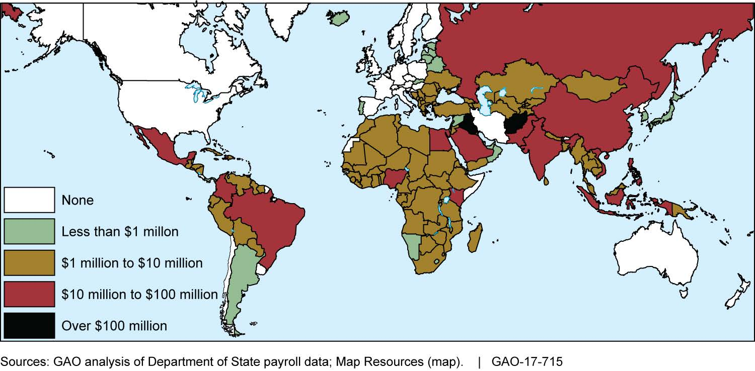 This image is excerpted from a U.S. GAO report: OVERSEAS ALLOWANCES: State Should Assess the Cost- Effectiveness of Its Hardship Pay Policies